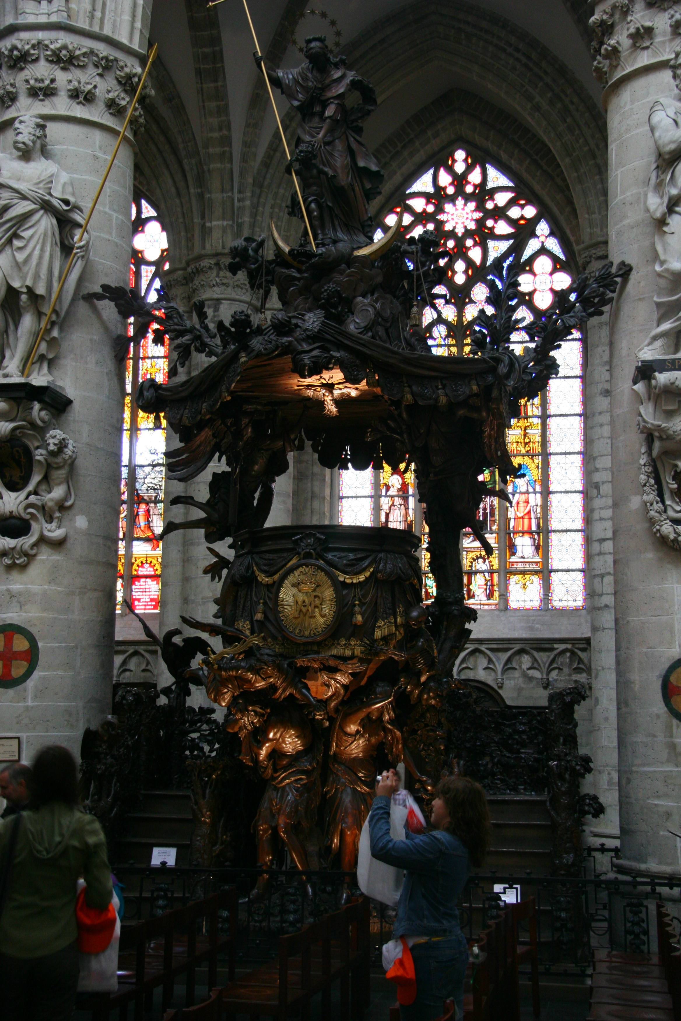 The podium of the St. Michael and Gudula cathedral in Brussels. It was carved in oak by H. Verbruggen in 1699.